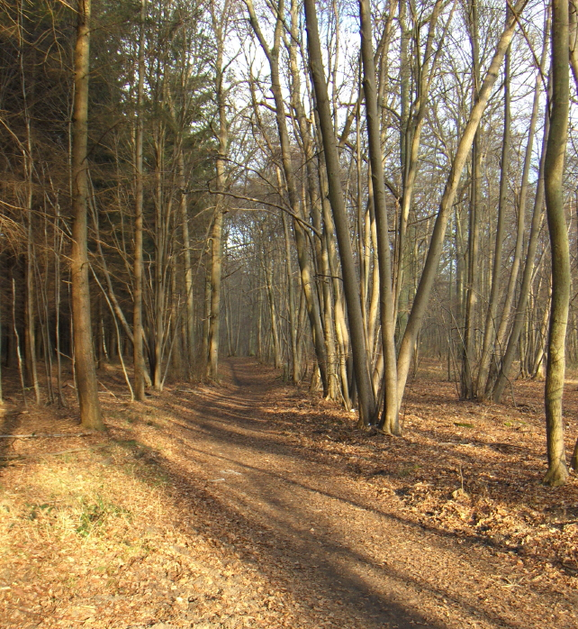 Forest trail in forest of Chantilly, ancient roman road from Senlis to Paris via Luzarches.